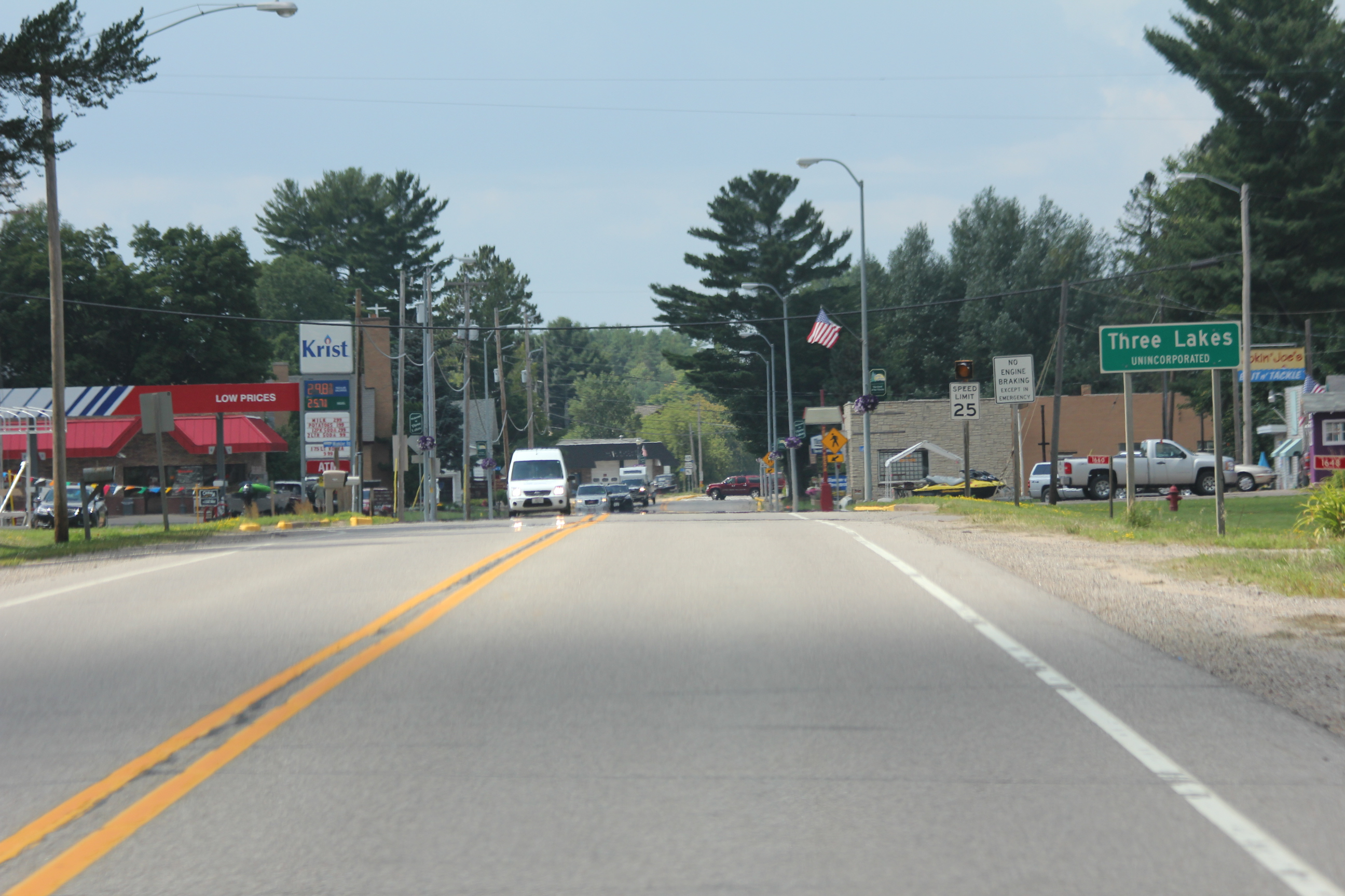 Looking west at the sign and entrance to Three Lakes (CDP), Wisconsin on U.S. Route 45.